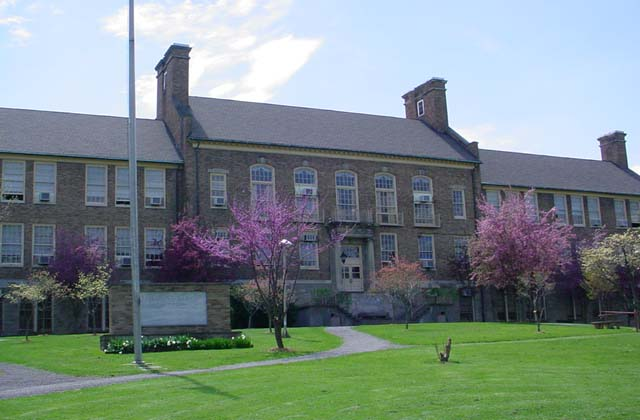 Cameron Lillevolds Dungeon